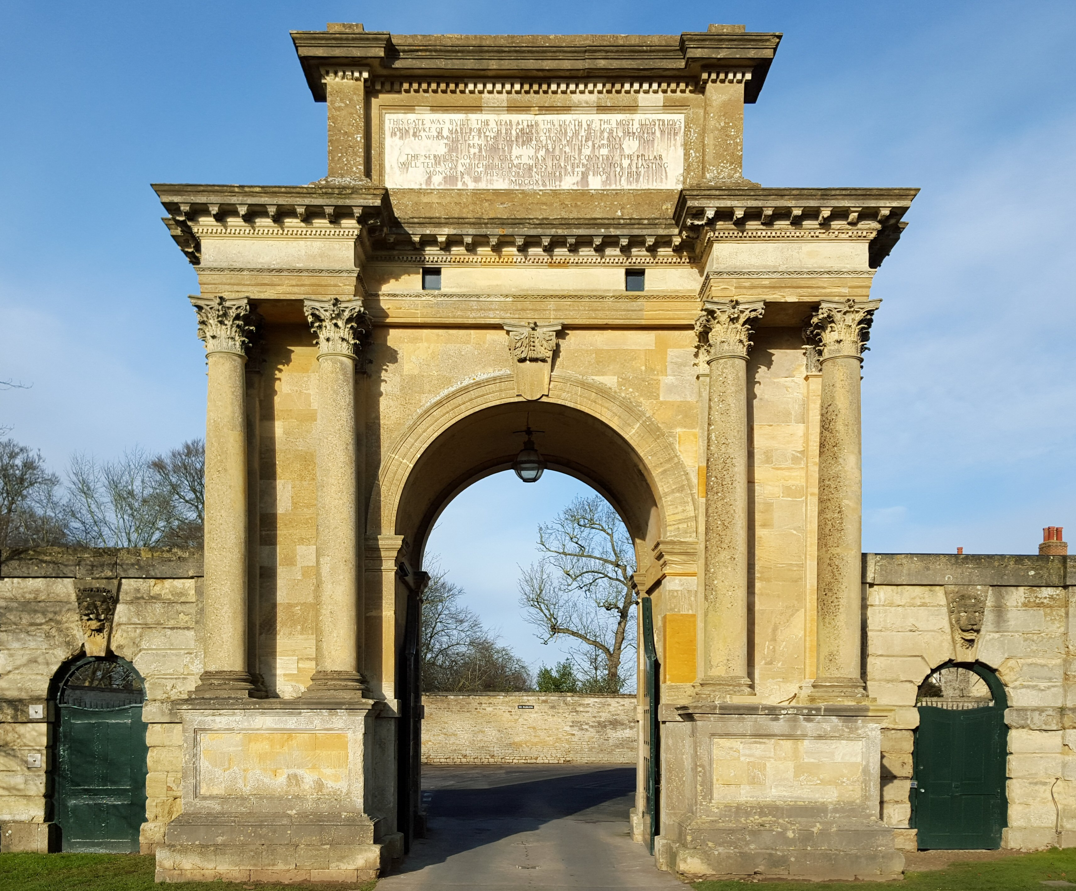 Woodstock Gate, Blenheim Palace - looking out. Built in 1723. This place is a UNESCO World Heritage Site, listed as Blenheim Palace.